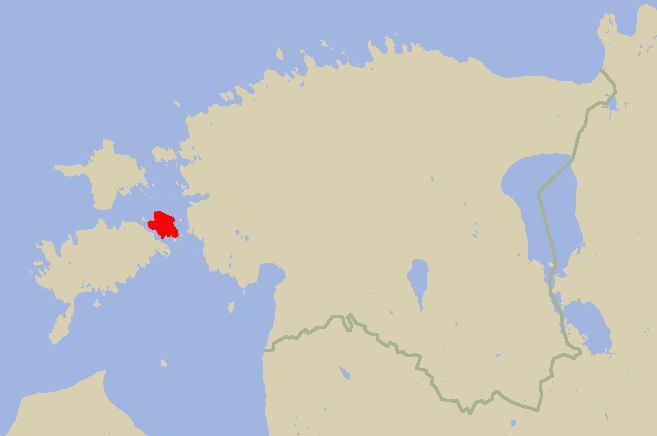 Muhu on the map of Estonia.